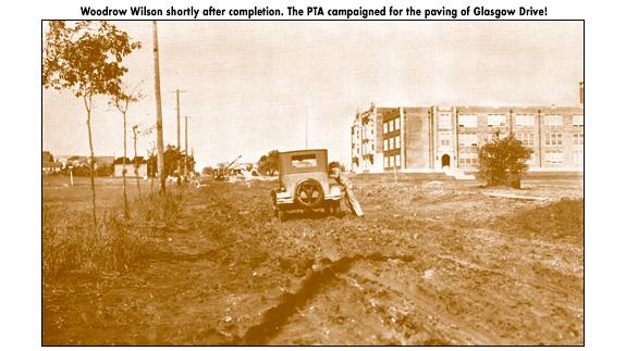 The school as seen from S. Glasgow Drive shortly after it opened in 1928.